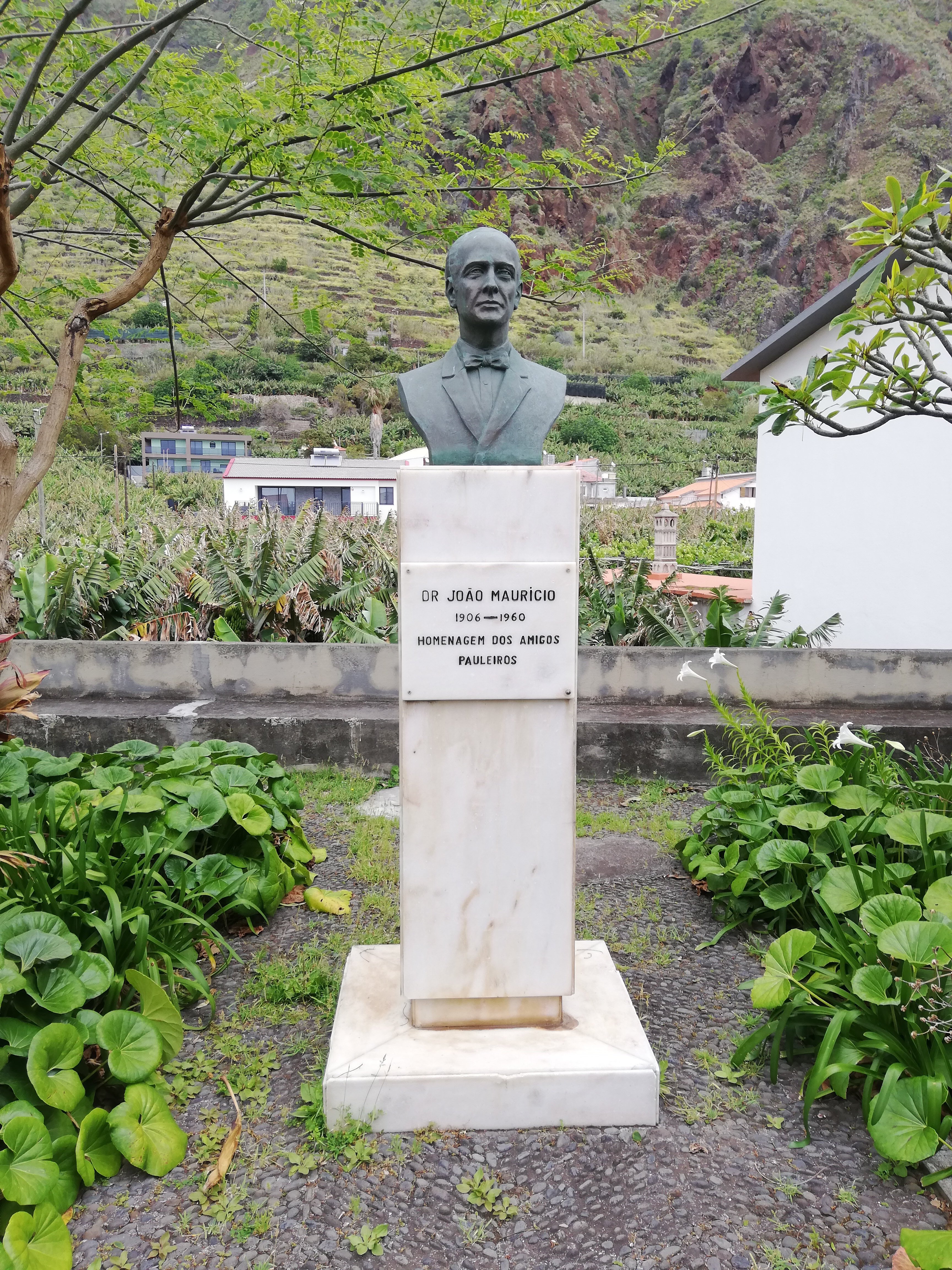 Estátua em homenagem ao Dr. João Maurício Abreu dos Santos